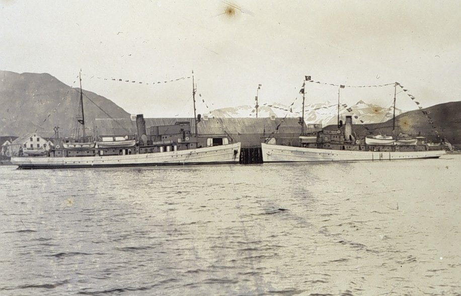 c. 1940 Dutch Harbor, Unalaska Island, Alaska Guide (right) along with USC&GS Pioneer USC&GS photo